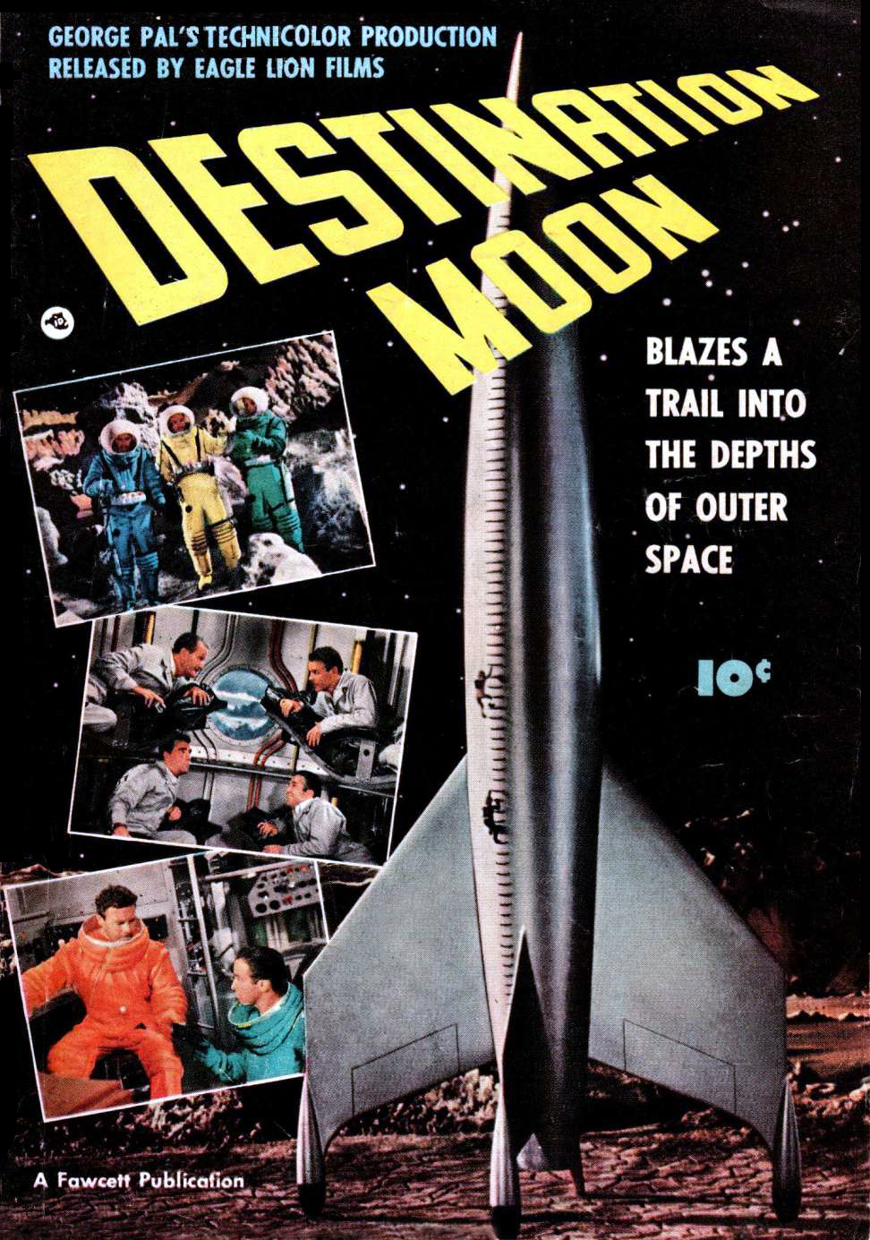 Cover of Fawcett Comics's adaptation of Destination Moon.